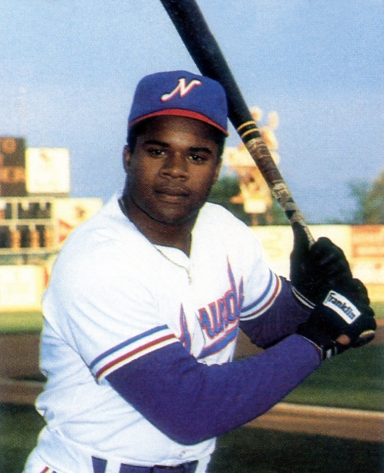 Second baseman/shortstop Lenny Harris of the 1988 Nashville Sounds Minor League Baseball team of the American Association